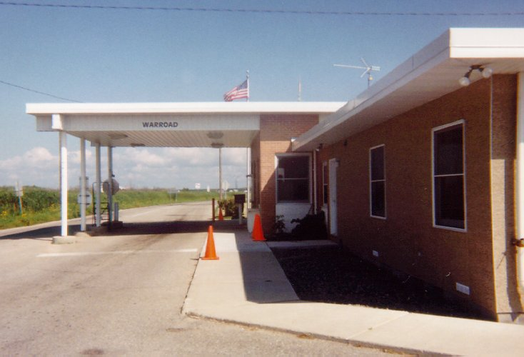 Warroad MN Border Station